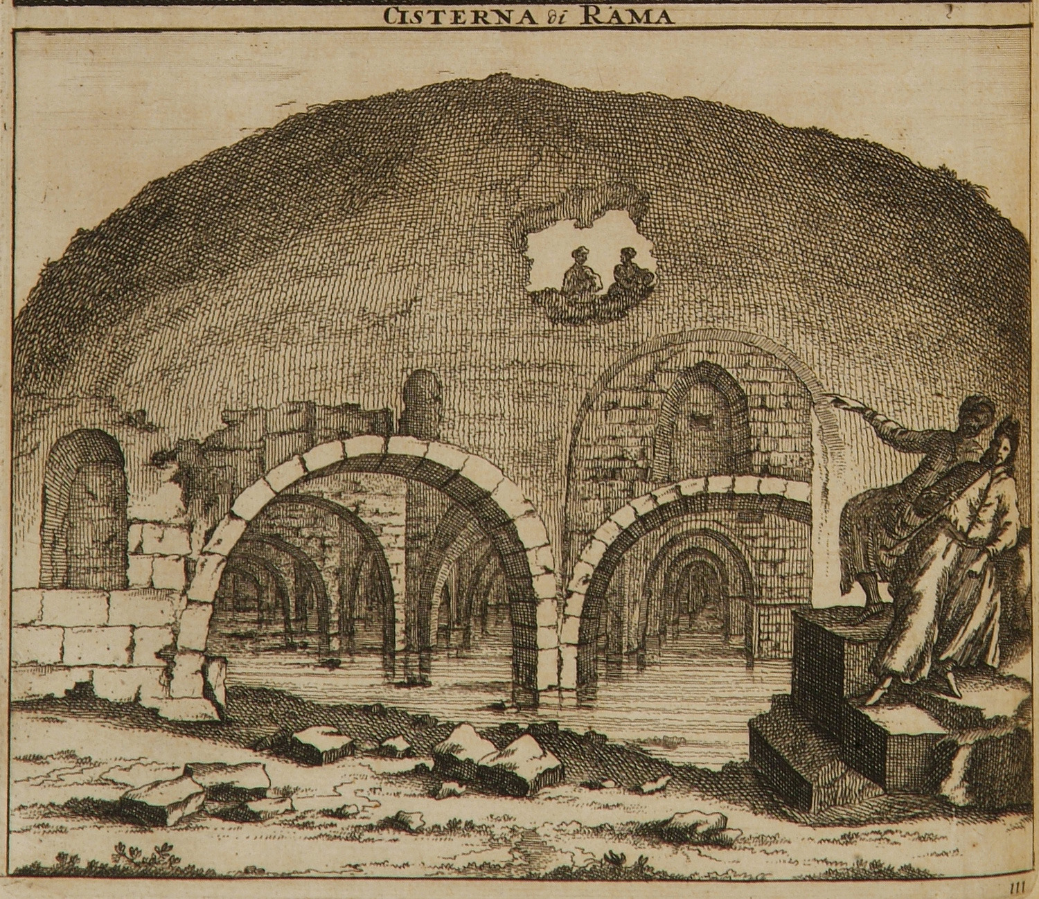 Cornelis de Bruyn. Voyage au Levant, c’est-à-dire, dans les principaux endroits de l’Asie Mineure, dans les isles de Chio, Rhodes, et Chypre et.c., Paris, Guillaume Cavelier, 1714.